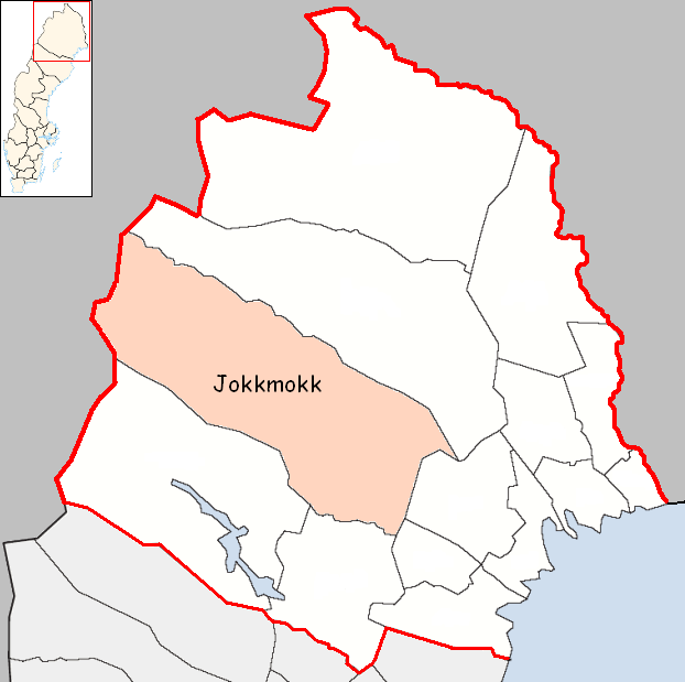 Jokkmokk Municipality in Norrbotten County Designed by me. Mere outlines are a PD source from